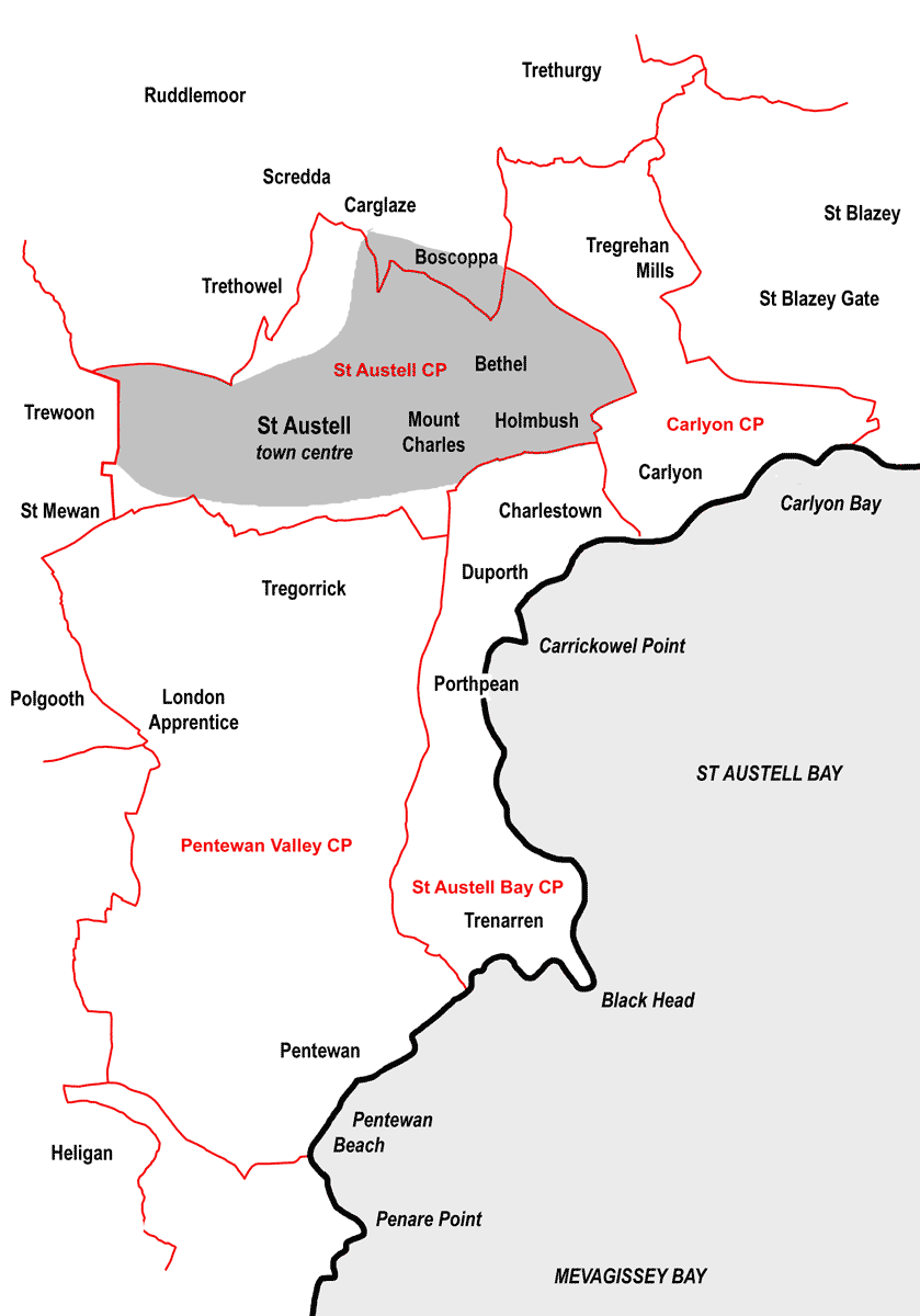 A sketch map of the four new Civil Parishes formed in 2009 covering the St Austell area of Cornwall, UK